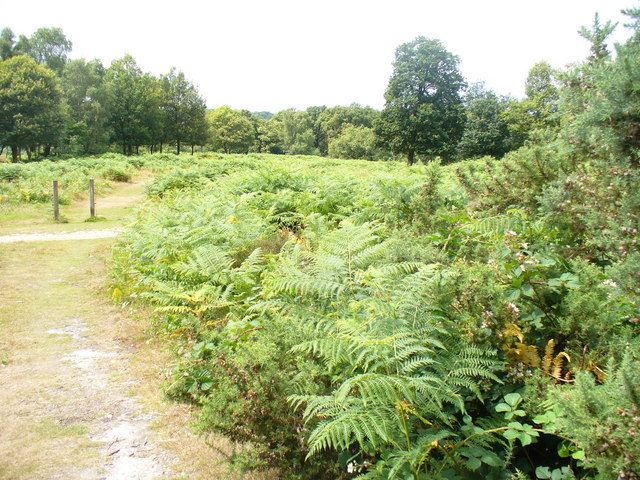 Headley Heath Sandy and hilly area of the North Downs, poor soils, deciduous woodland with bracken infestations on the heathland.